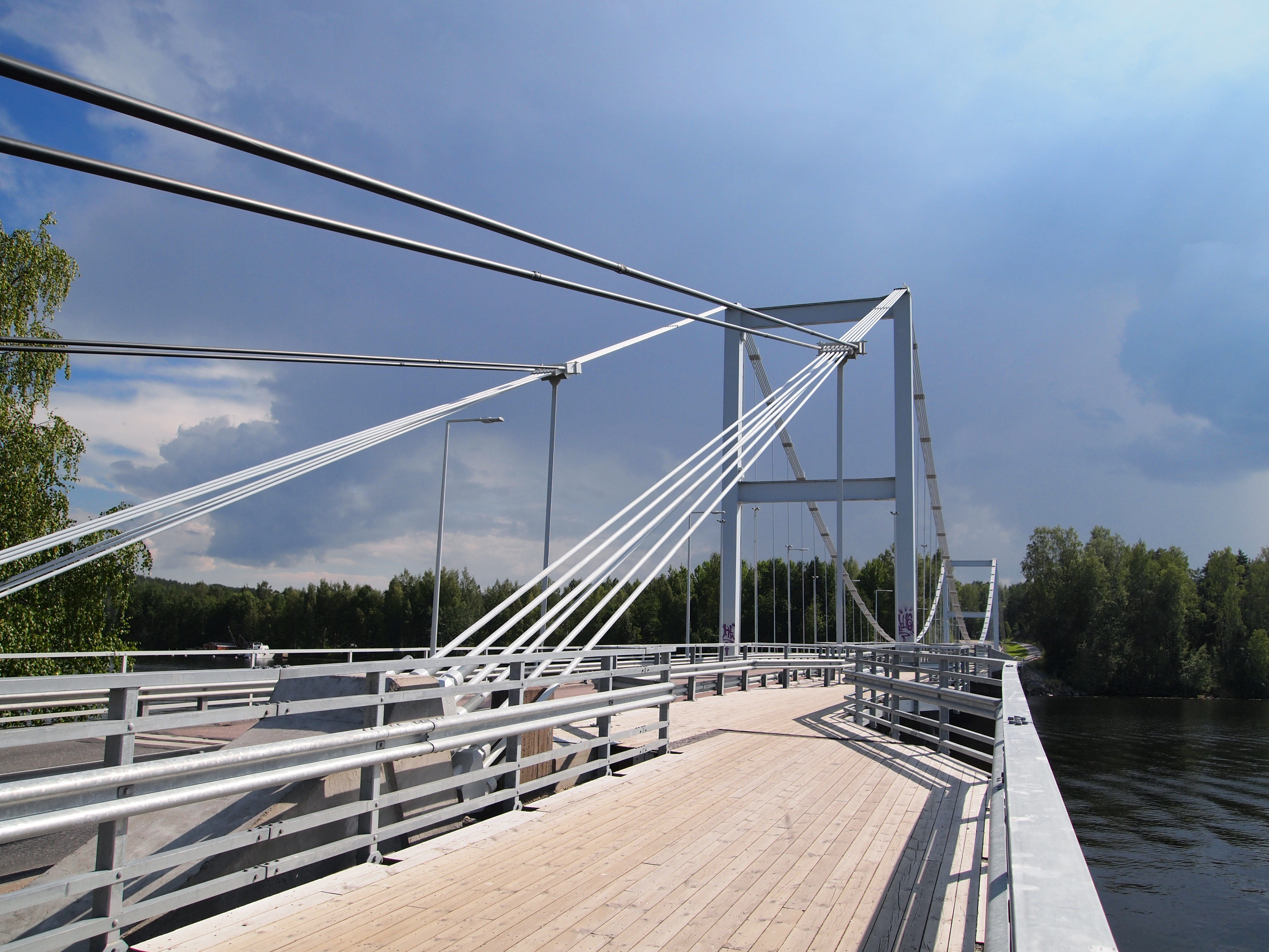 Louhunsalmi bridge in Jyväskylä. View from Säynätsalo to Lehtisaari. This photograph was taken with an Olympus E-PL1